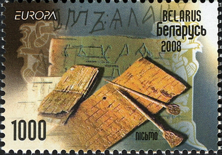 Stamp of Belarus